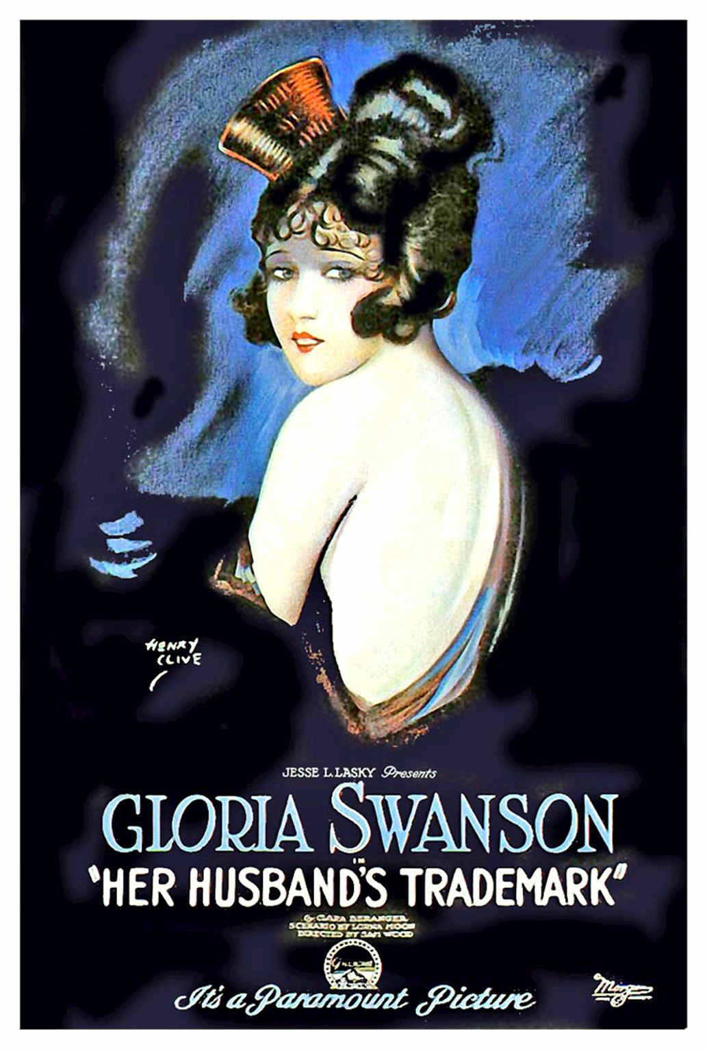 Movie poster of the 1922 American film Her Husband's Trademark.